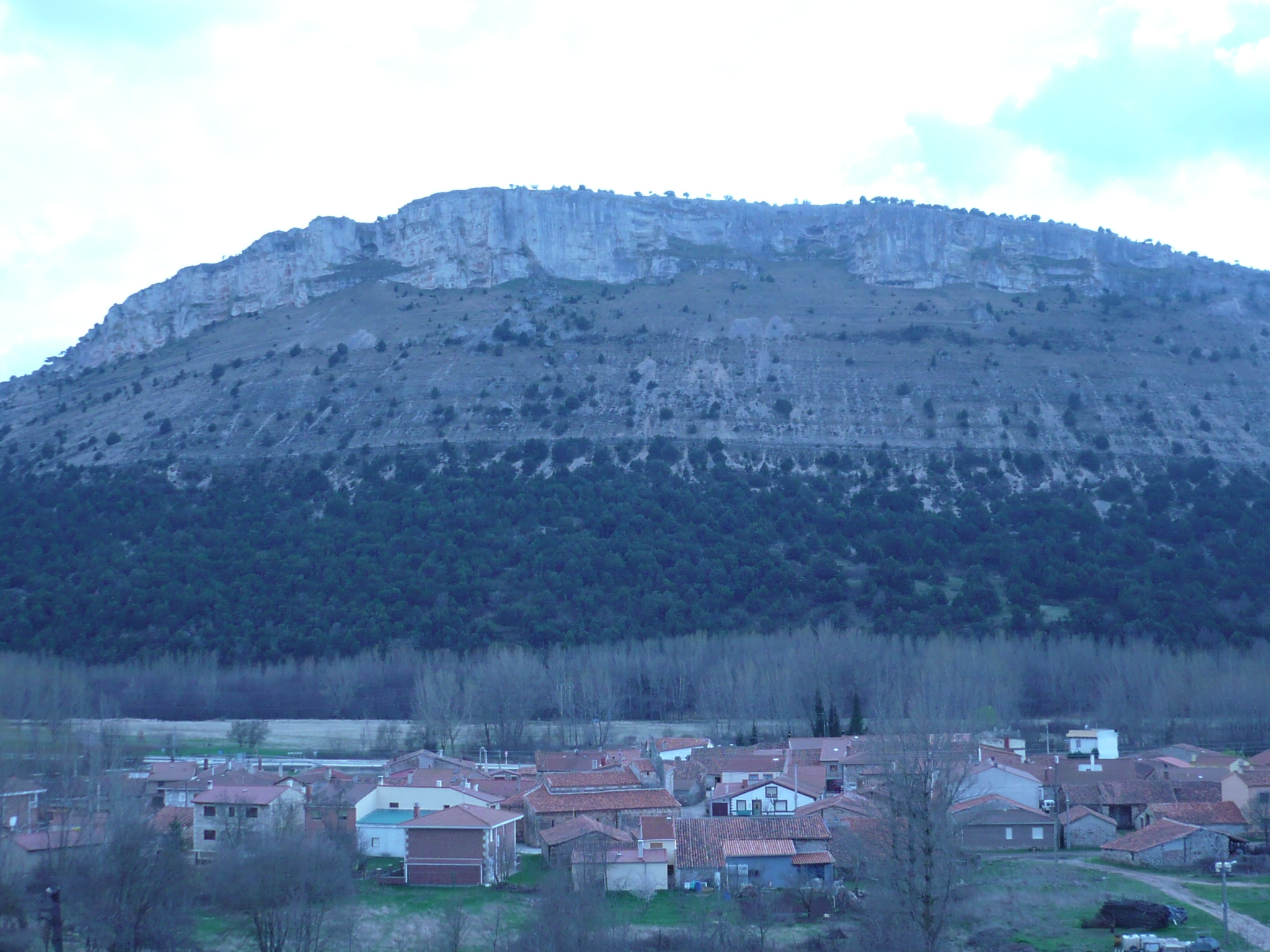 Village of Cascajares de la Sierra(Burgos) at the bottom of the hanged syncline of the Sierra del Gayubar.